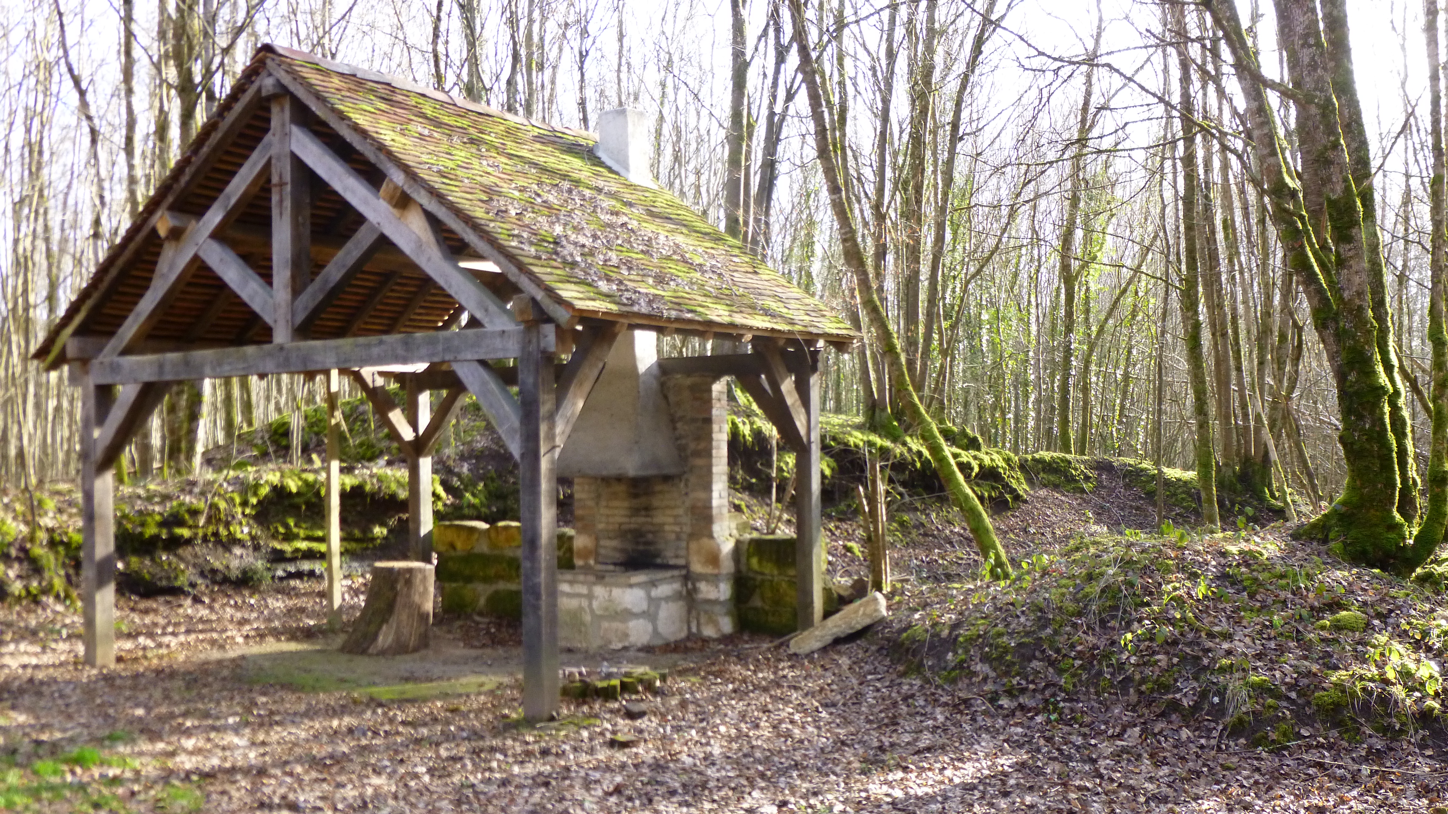 The "ferrier", Tannerre-en-Puisaye, Yonne, Burgundy, France.